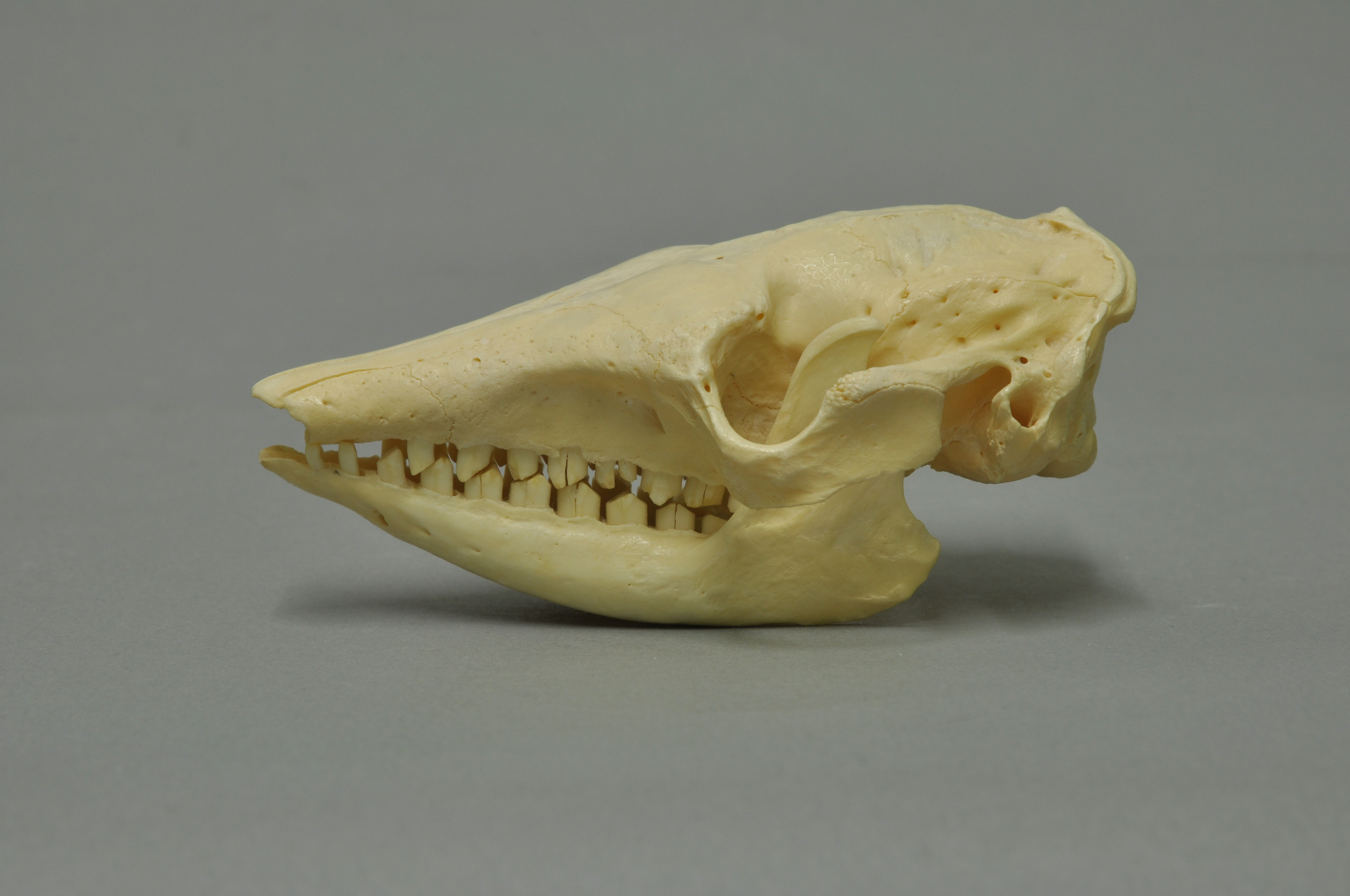 Big hairy armadillo Chaetophractus villosus, skull, Coll. Museum Wiesbaden